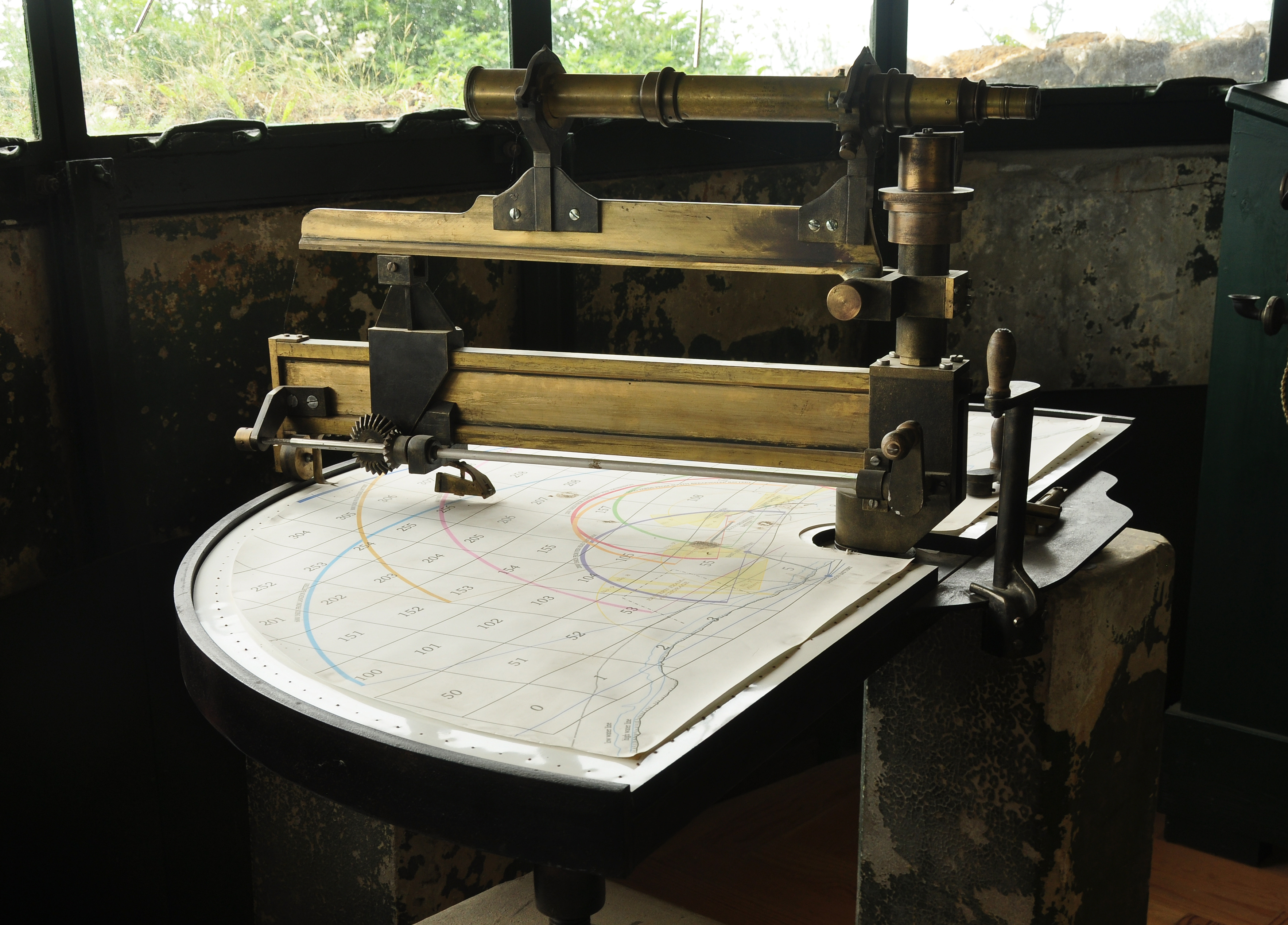 A depression position finder, part of a Watkin position finder system in a position finder cell, for target range and bearing in the Admiralty lookout of Dover Castle, overlooking Dover Harbour and the English Channel.